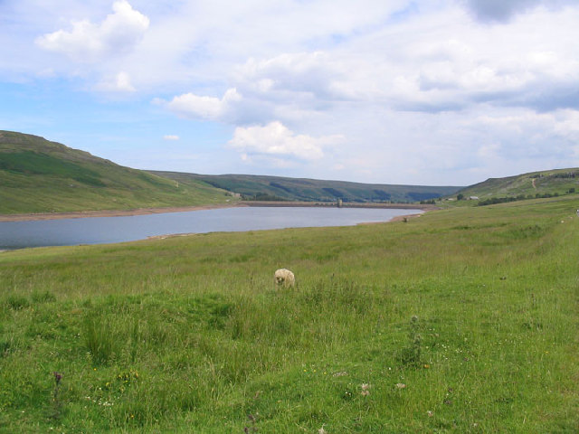 Scar House Reservoir. This photo was taken from the track of the old railway line which is now a tarmac road.